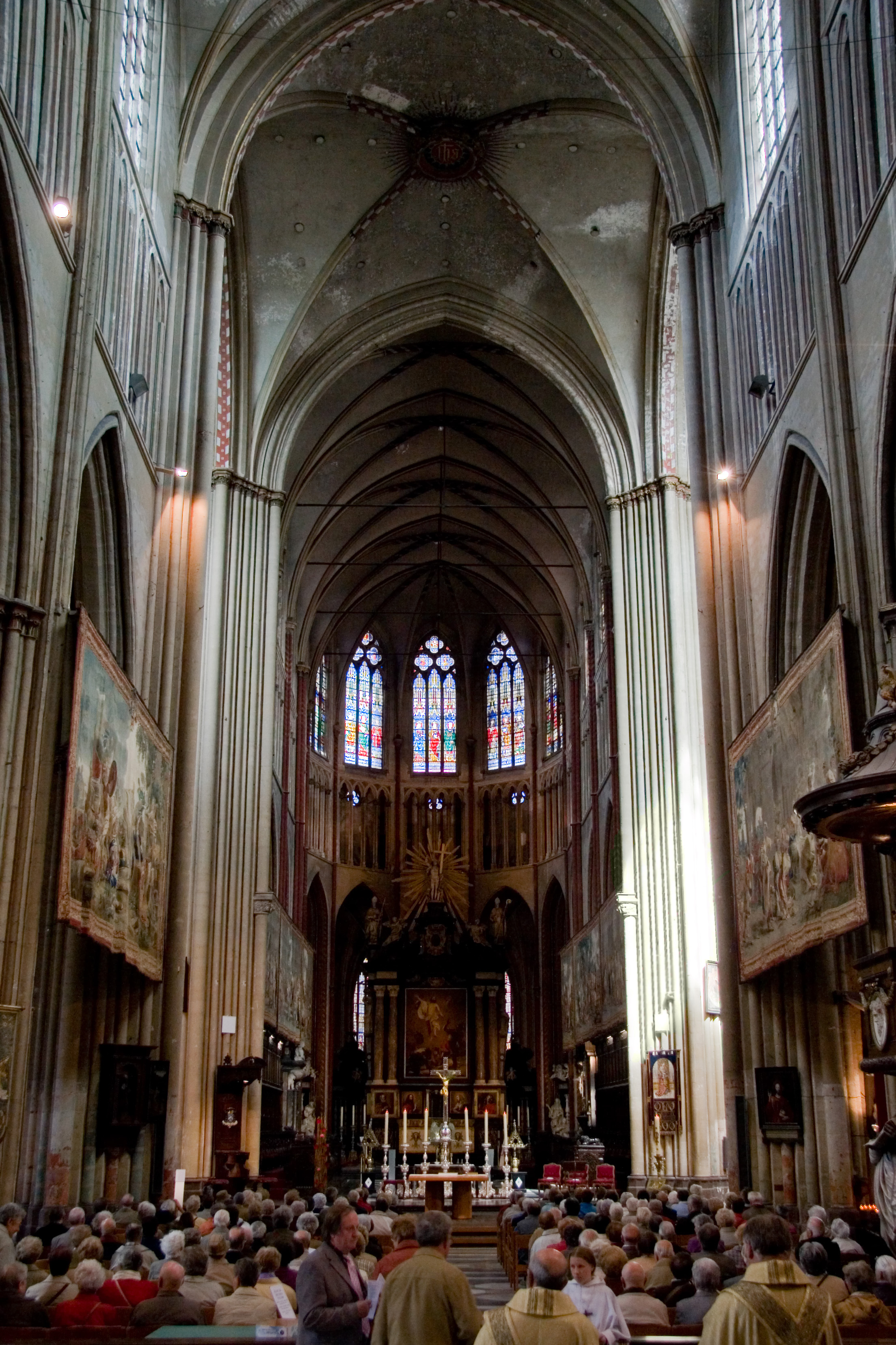 Sint-Salvator Cathedral in Bruges